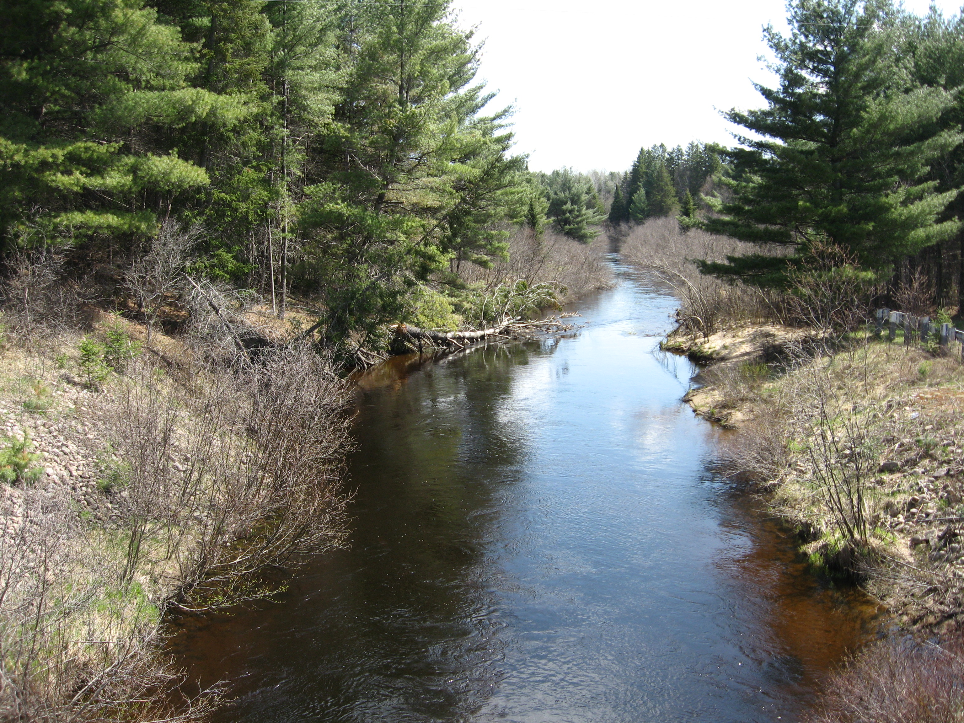 Indian River viewed from Stencells Road bridge. Laurentian Valley, Ontario, Canada.